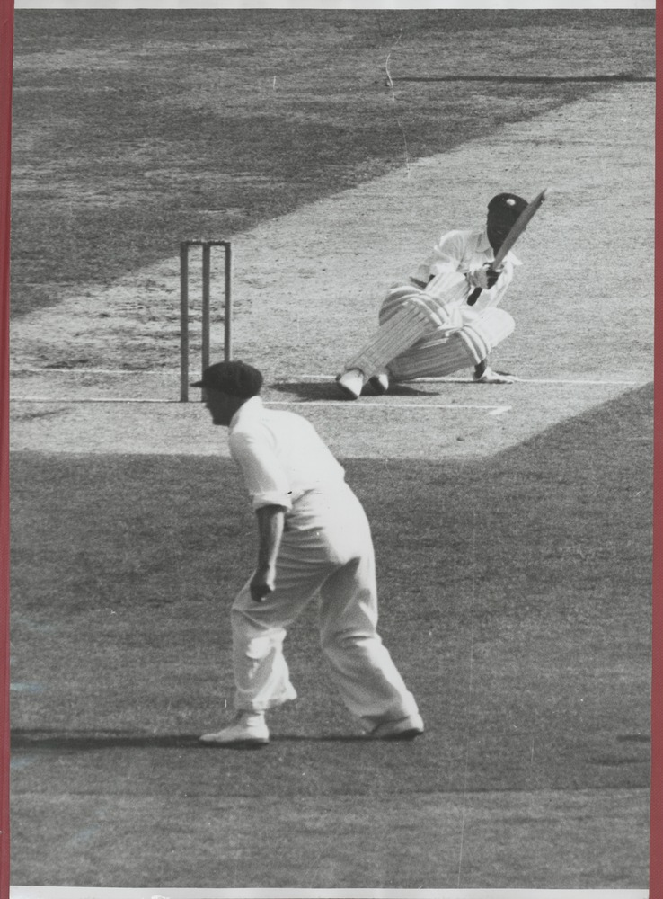 Phadkar slips over on the pitch when trying to hook a short ball from W. Johnston [2nd test, 1947, Sydney, Australia against India]